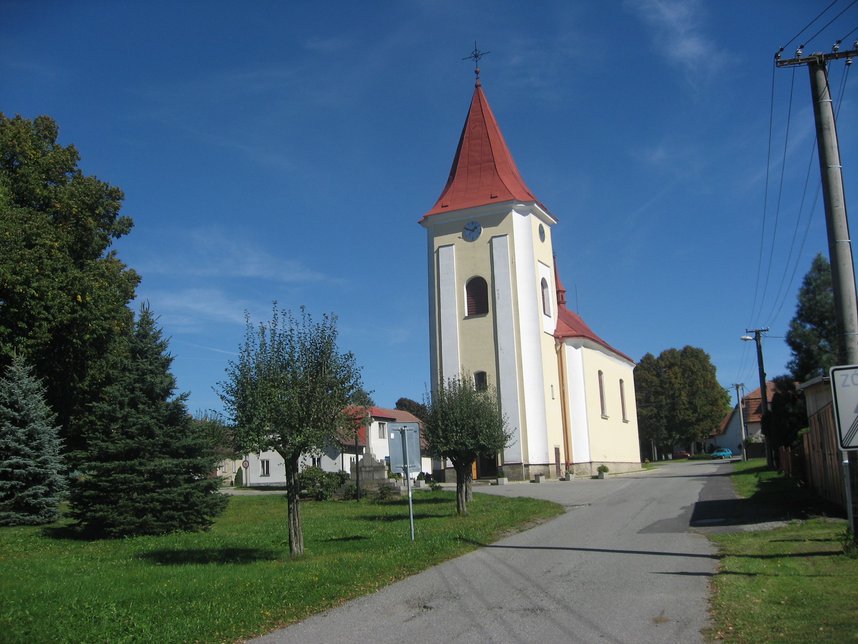 Village green with church of St John the Baptist in Kaliště, Pelhřimov District, Czech Republic